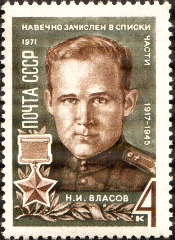 USSR stampː World War II Hero Lieutenant Colonel Nikolai Vlasov. Seriesː Heroes of World War II